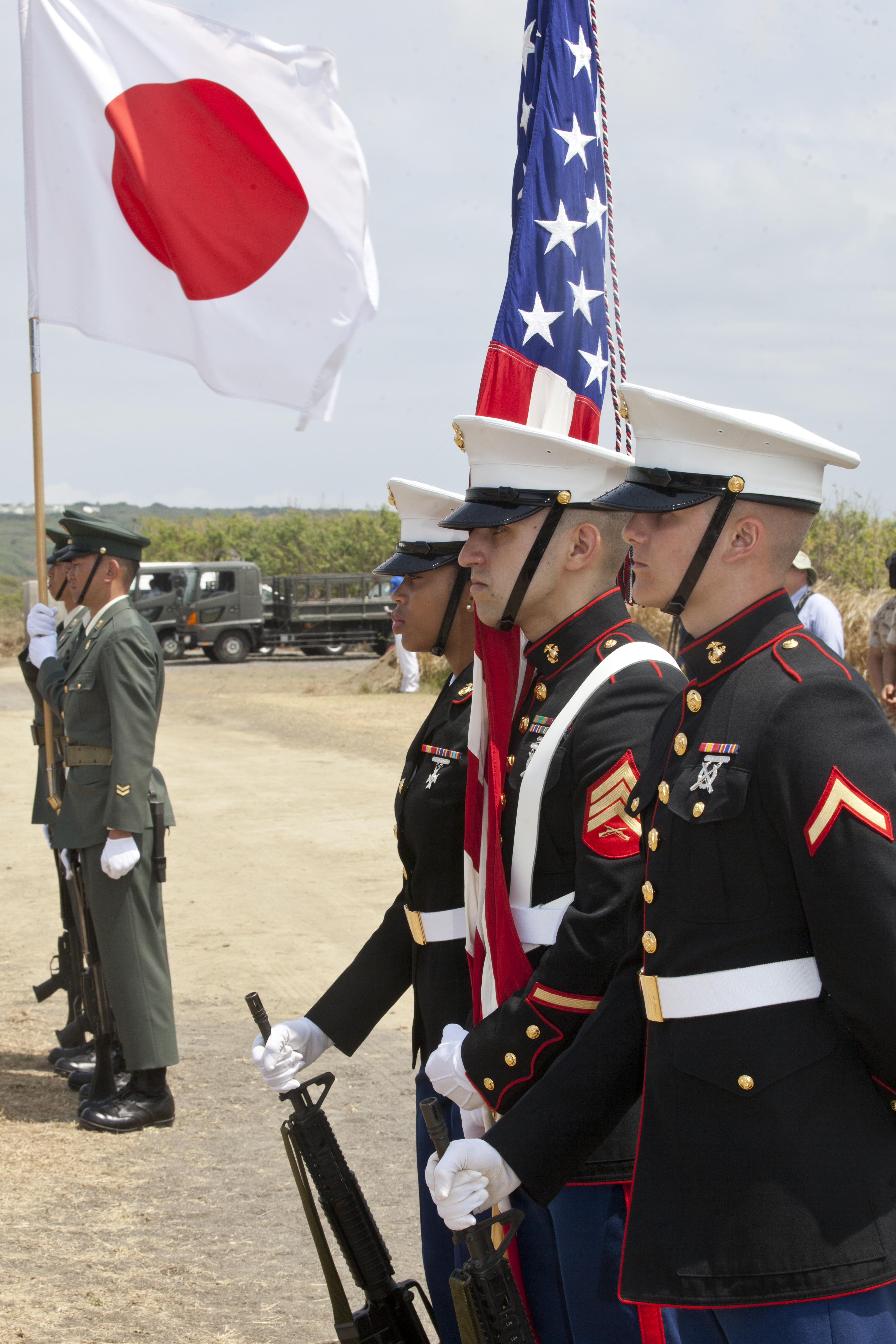 U.S. Marines and Japanese troops display their nations' colors during the Reunion of Honor ceremony at Iwo To, Japan, March 21, 2015. Iwo Jima veterans, families, Marines, Japanese troops and officials attended the ceremony commemorating the lives of those lost in one of the most iconic battles of World War II. (U.S. Marine Corps photo by Sgt. Gabriela Garcia/Released)